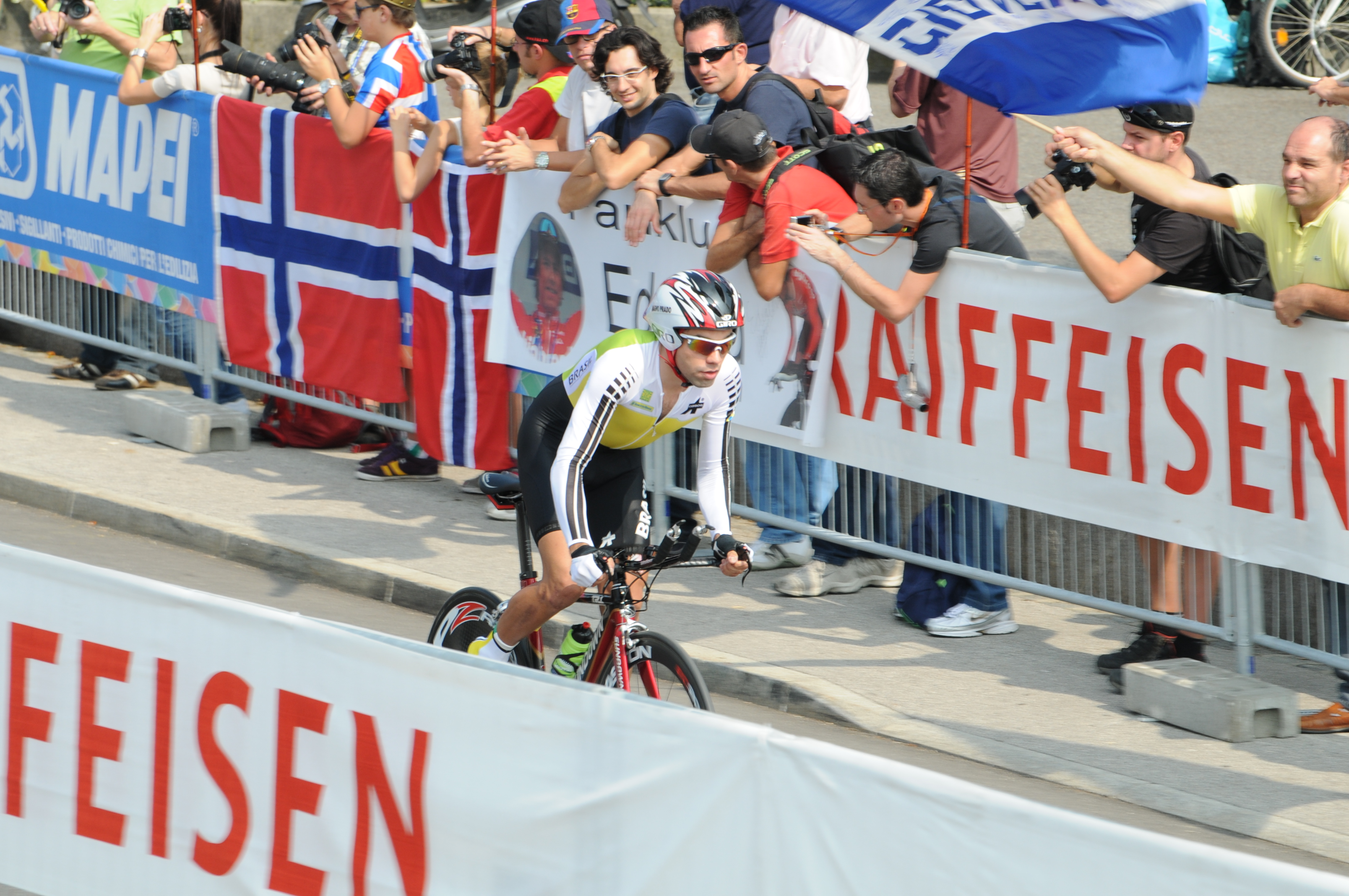 Magno Prado Nazaret at UCI World Championships in Mendrisio, Switzerland